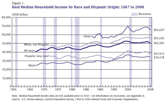 This image illustrates U.S. real median household income per year by race and ethnicity from 1967 to 2008.